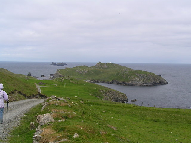 The descent from the hill of Breibister to Fethaland. The view from here includes the un-named bay to the right and the whole of the rest of Fethaland to the north.